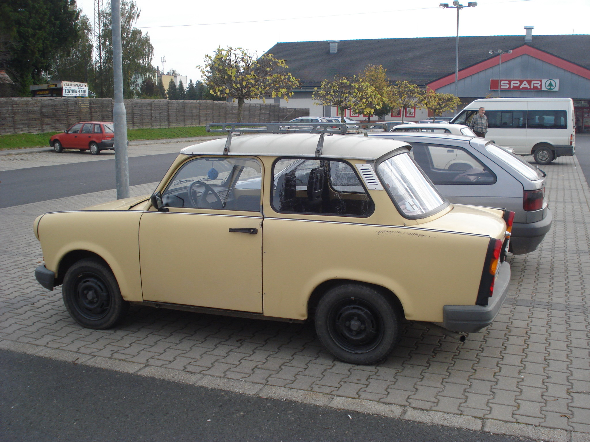 A Trabant (Model 1,1), East German car, photographed in Hungary